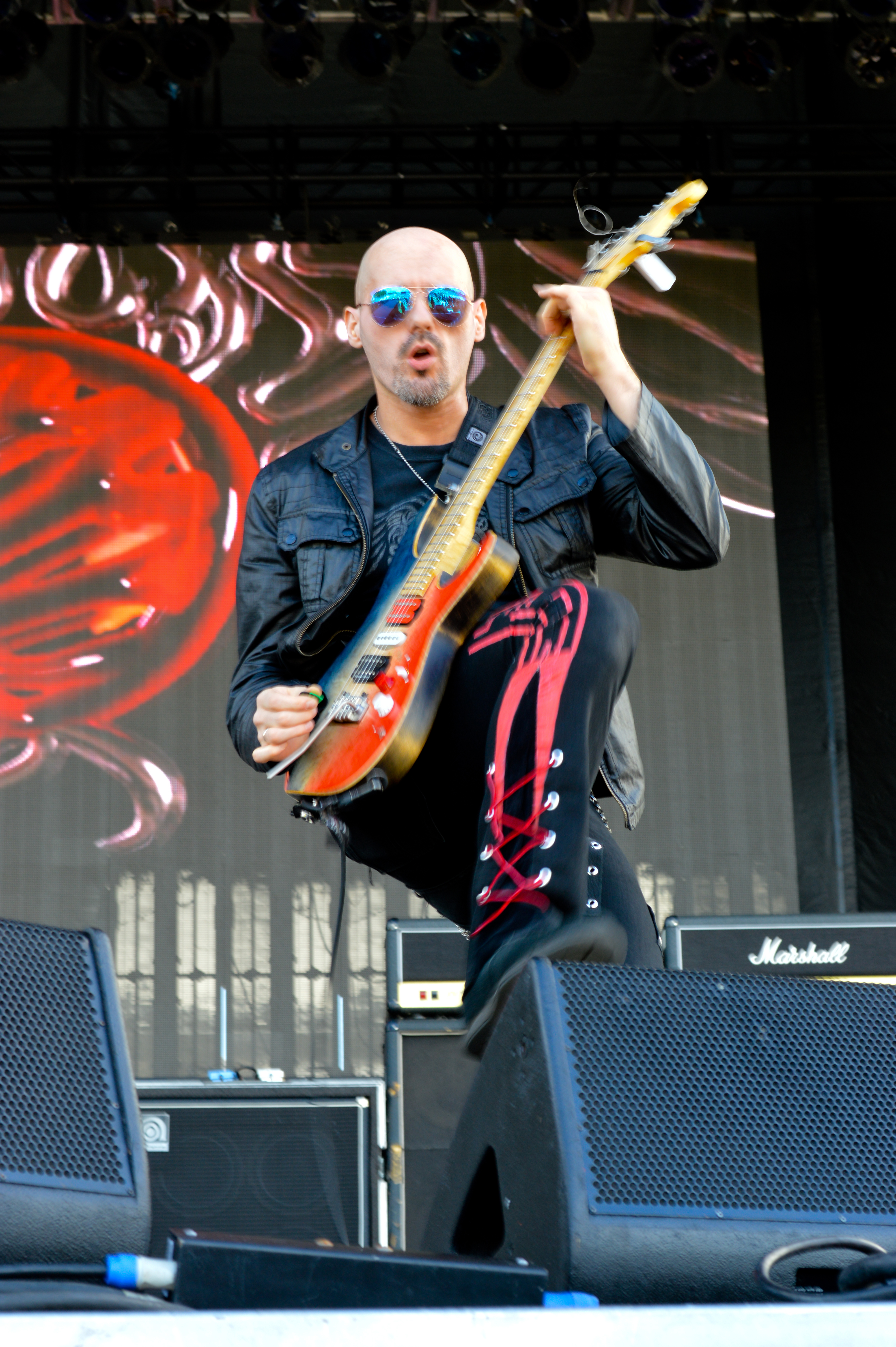 Performing as a member of Steelheart, Uros Raskovski jams at Rockfest 80's music festival on day one on November 4, 2017.